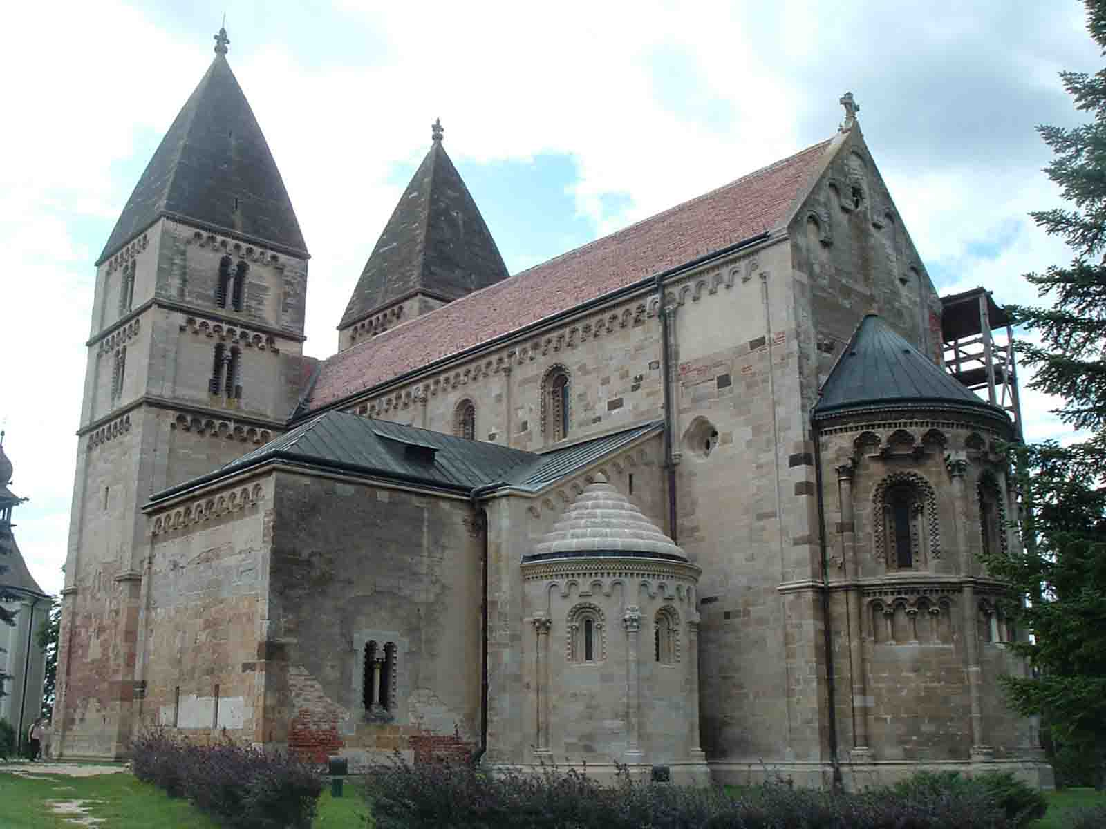 church of Ják, Hungary 13th c.